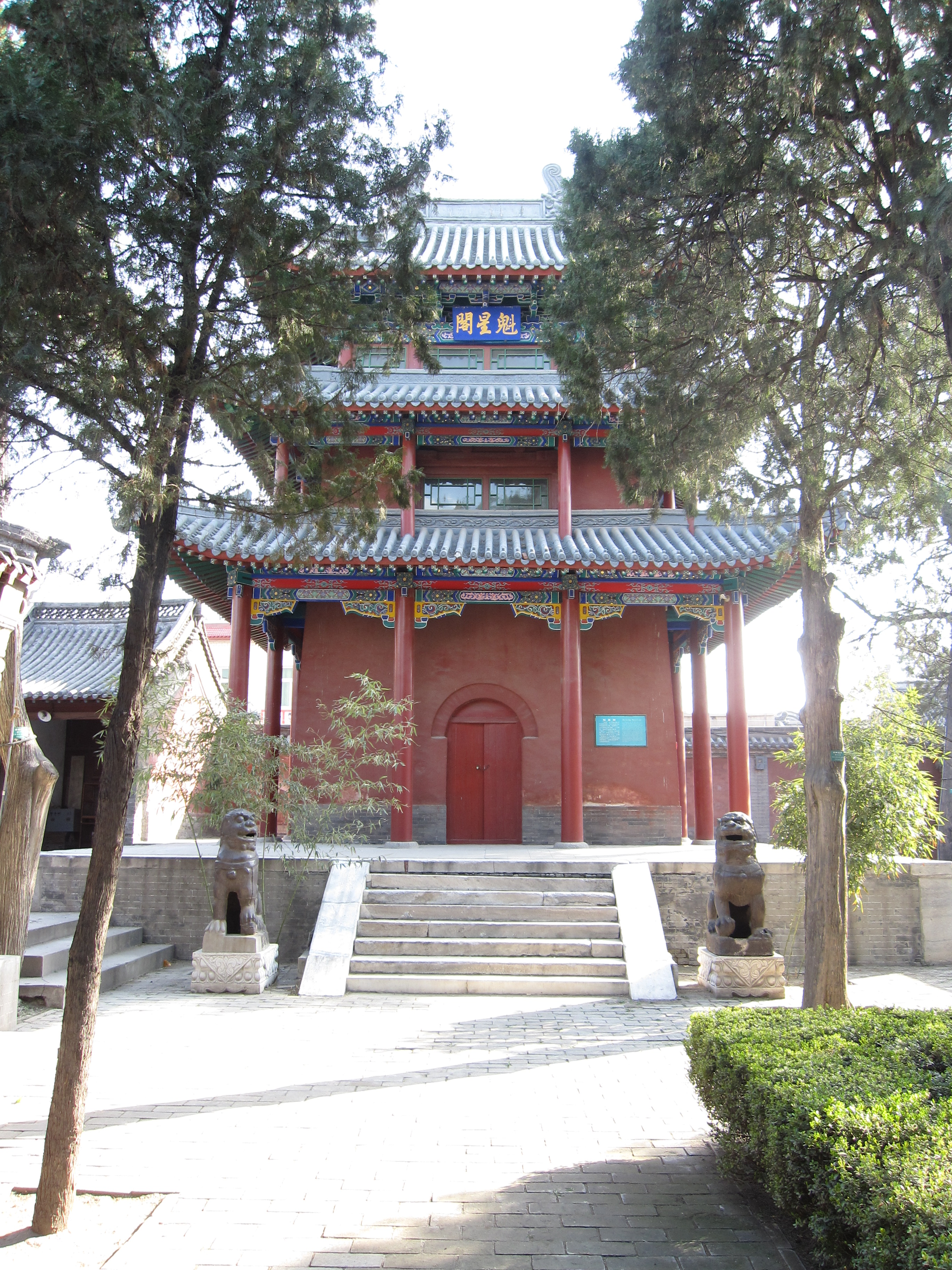 A pavilion in the Confucian Temple in Dingzhou, China.